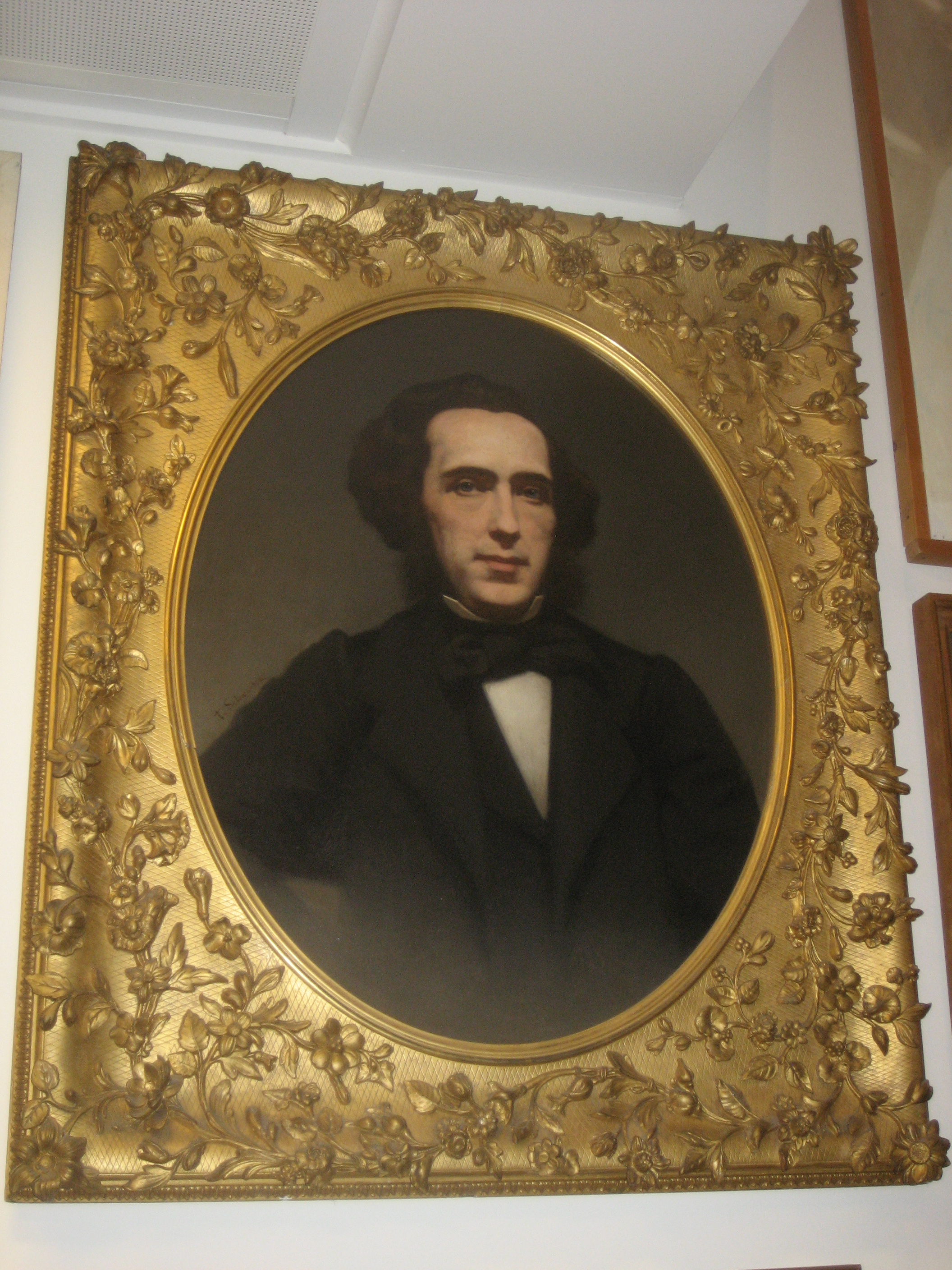 Portrait of P.A. de Genestet (1829-1861) by Thérèse Schwartze (1851-1918). Unknown date, probably ca. 1869 (RKD)